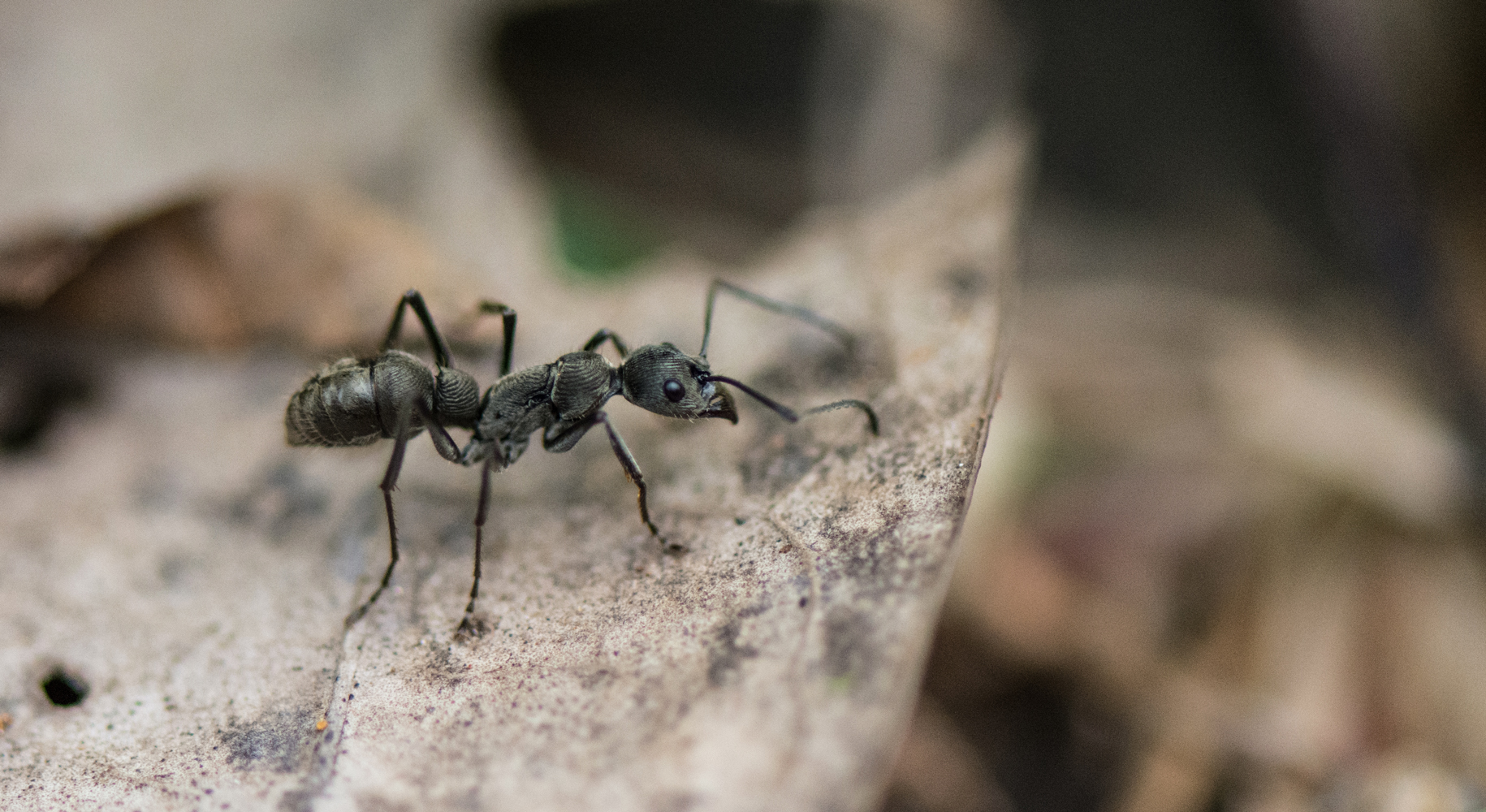 കട്ടുറുമ്പ്, കോട്ടയം, കേരളം